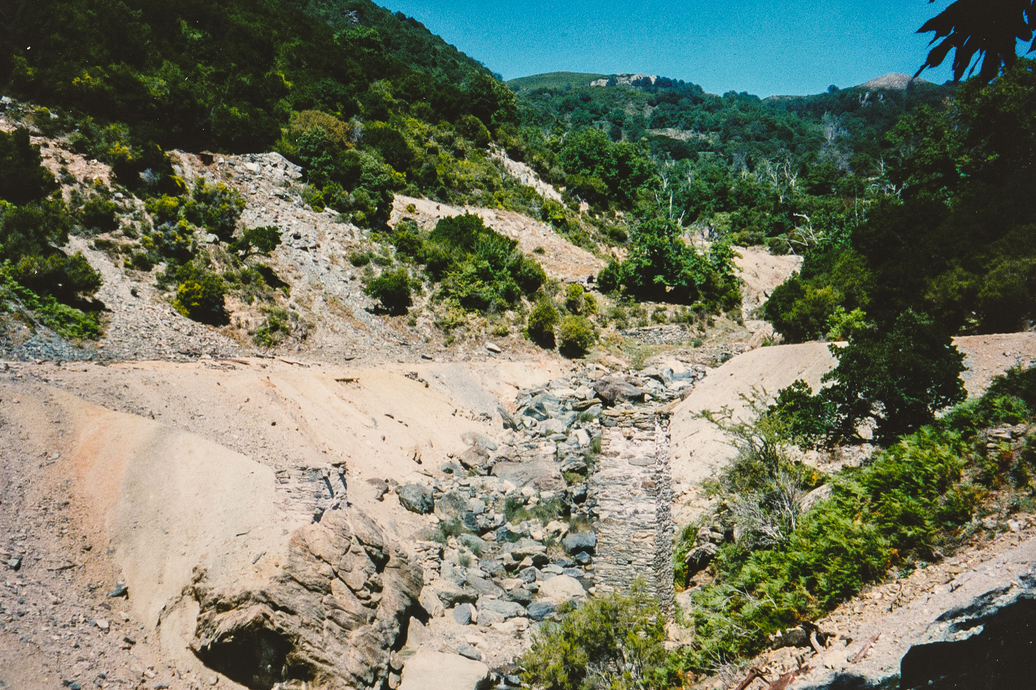 Arsenic mine tailings and ruins north of Matra, Haute-Corse, Corsica. Summer 1995.